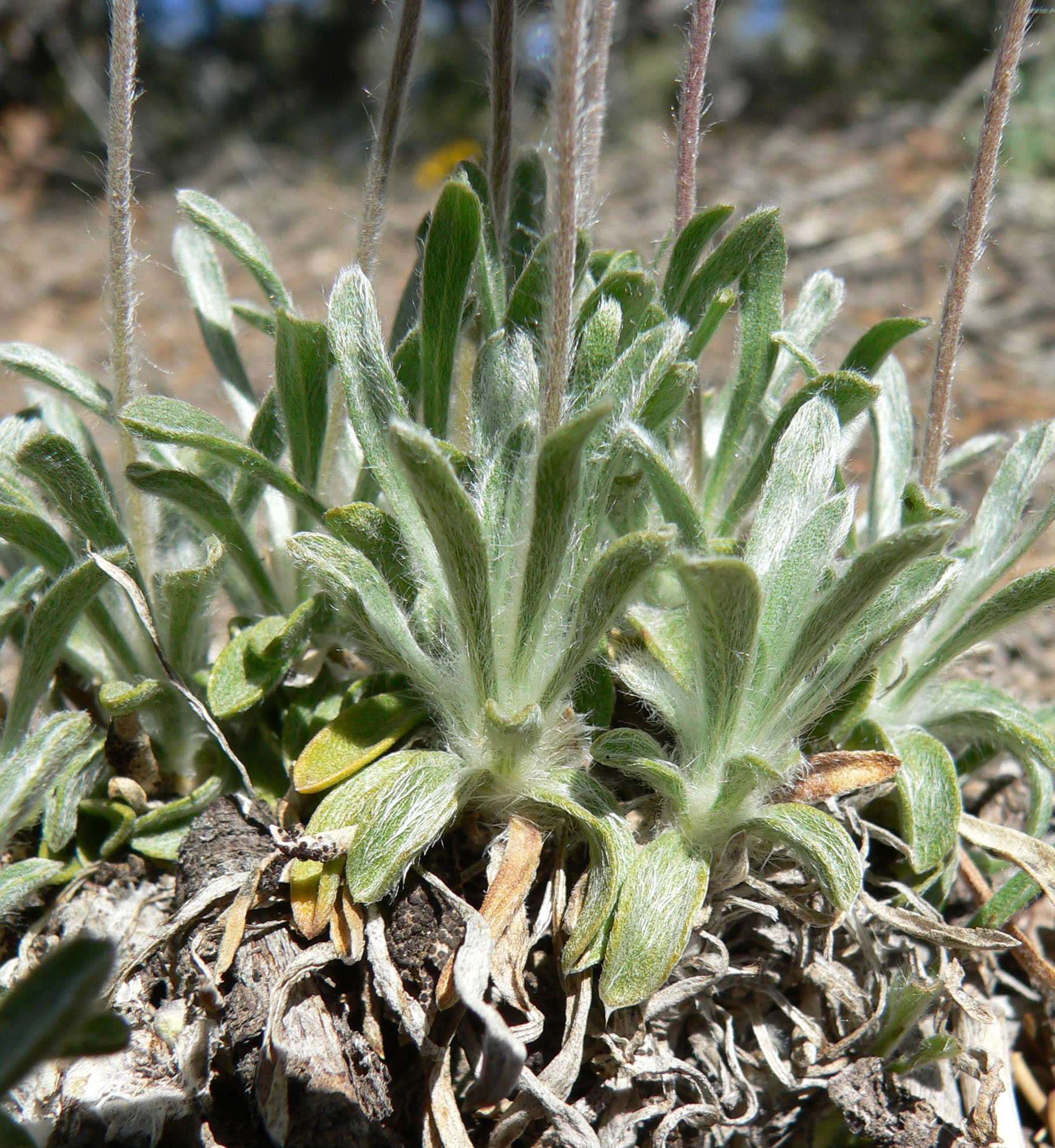 Tetraneuris acaulis var. arizonica near high point of road to Potosi Spring from route 160, 4 km SSW of Mountain Springs, Spring Mountains, southern Nevada (elev. about 1900 m)